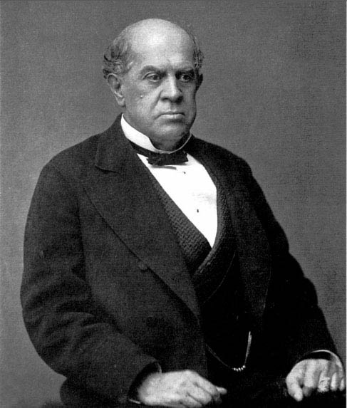 Politician and former President de Argentina Domingo Faustino Sarmiento.